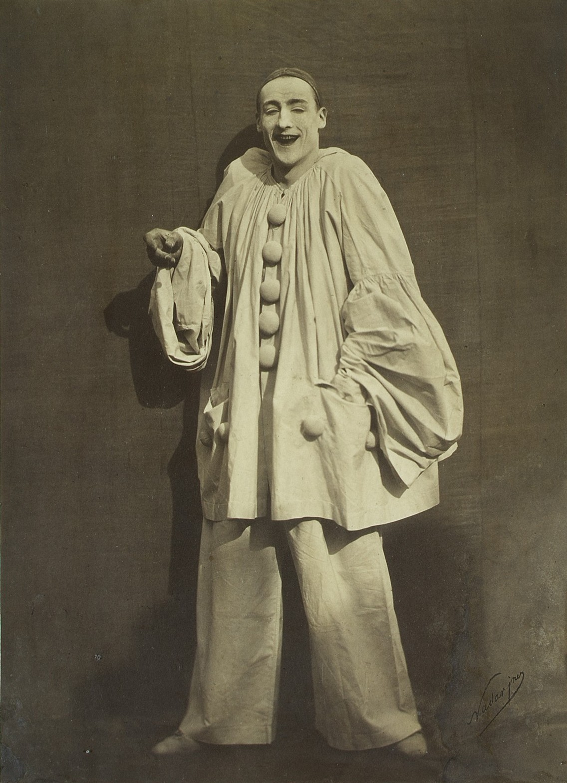 Portrait of Charles Deburau, a pierrot clown.